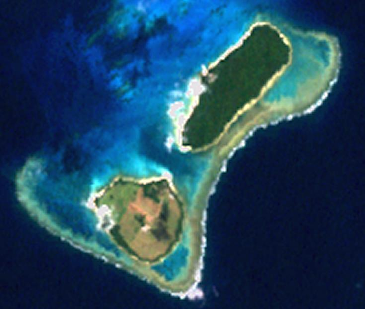 Aragusuku Islands.